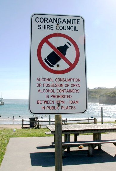 sign informing citizens of illegal drinking hours located in Port Campbell, Victoria, Australia. Author: me, Paul Vlaar Date: 2005-01-23